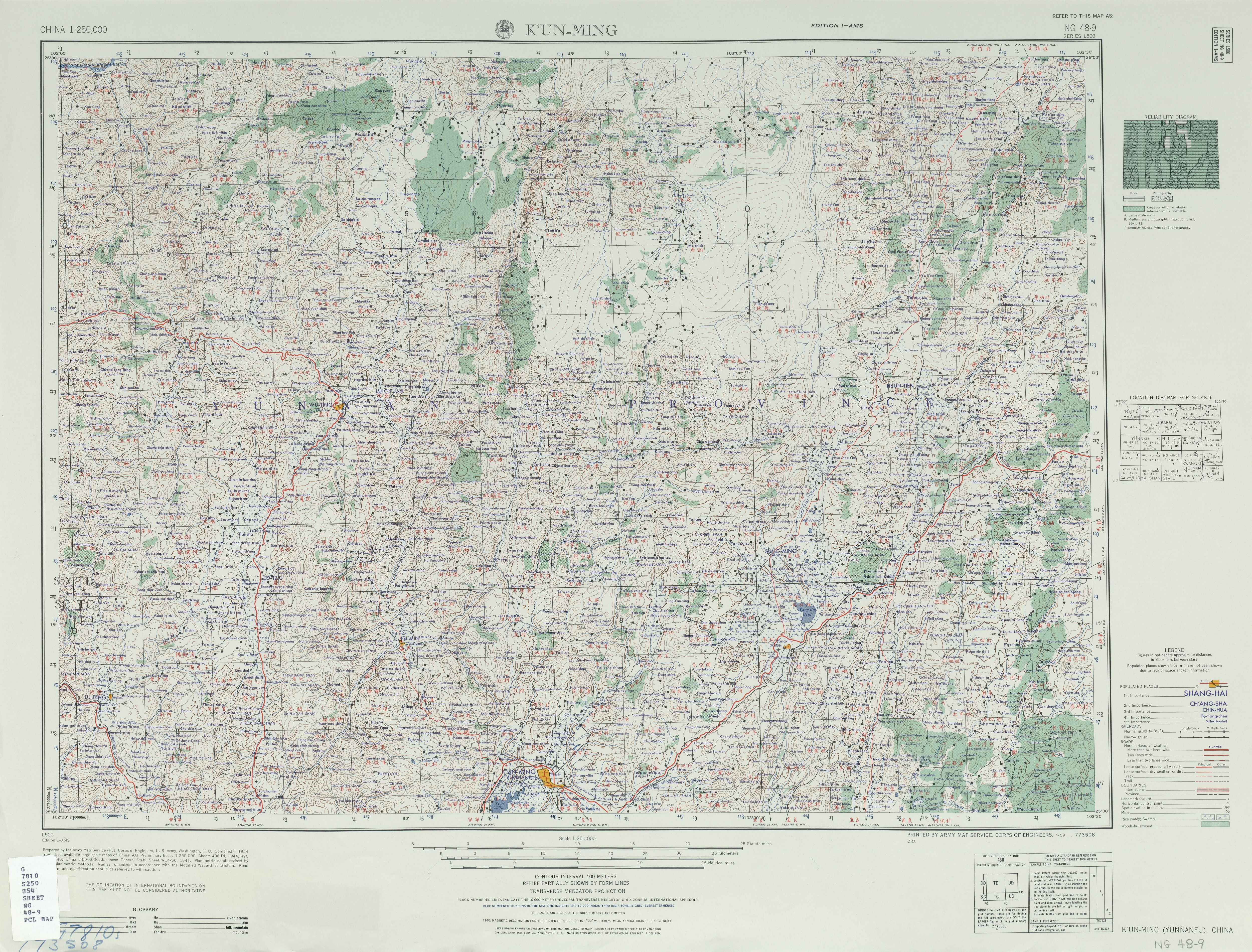 China AMS Topographic Maps